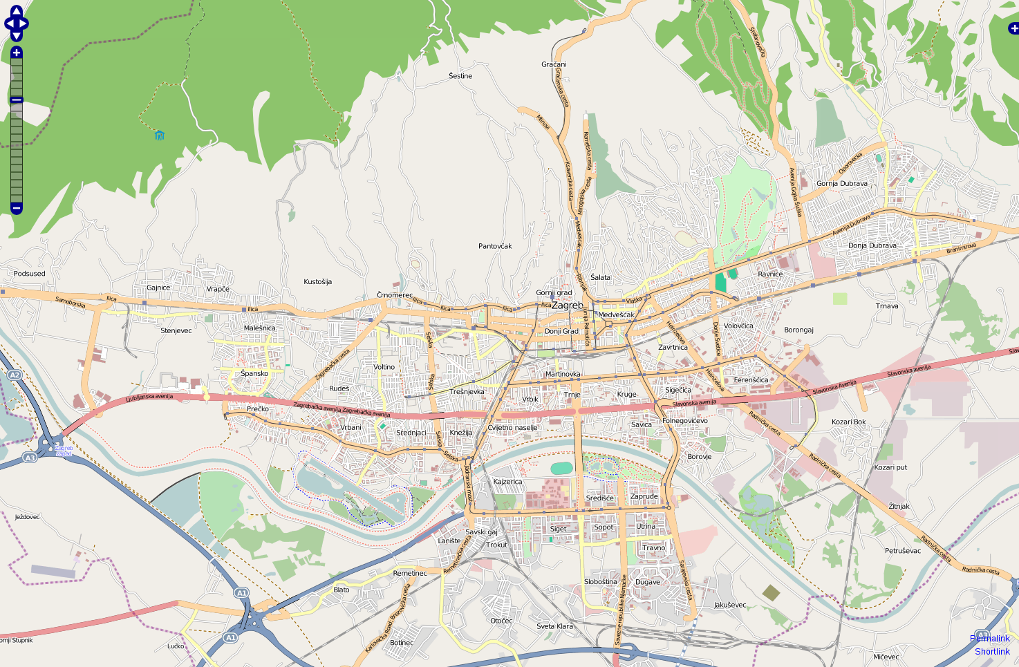 City of Zagreb (most of it) as seen at the OpenStreetMap site 2009-10-24, by using Mapnik rendered.